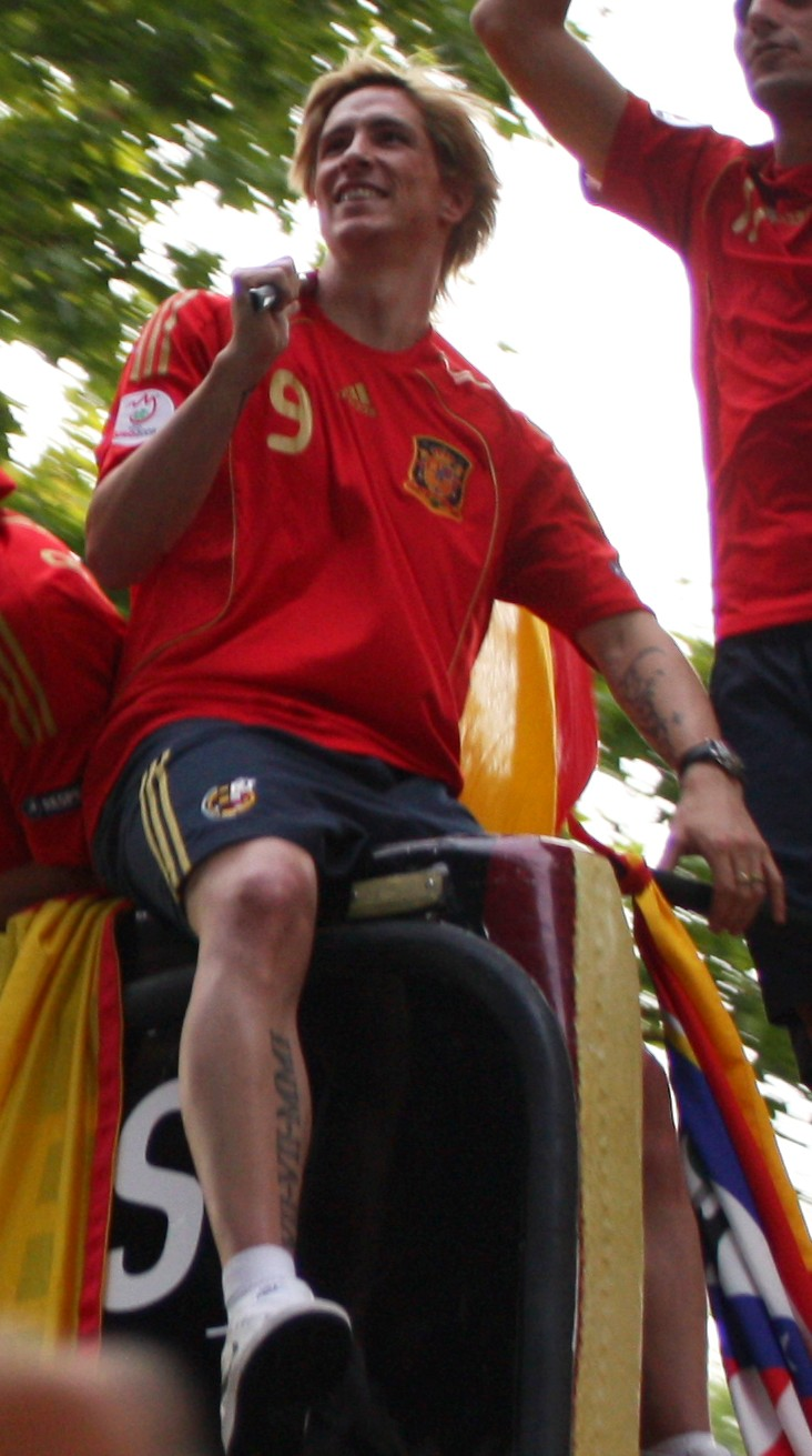 Fernando Torres with Spain, cropped from Image:Celebracion Eurocopa 3.jpg